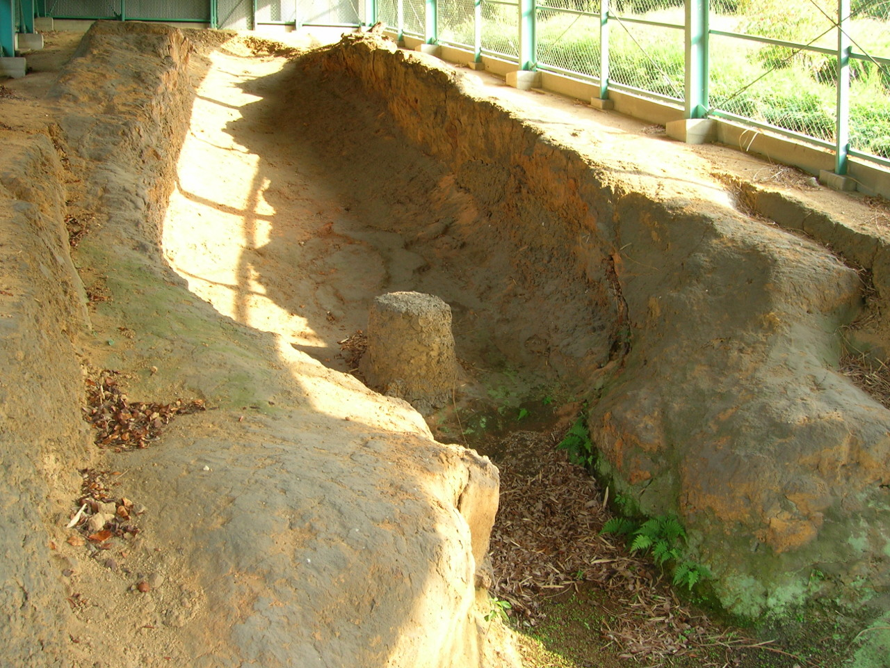 Nanamagari Koyou atogun (Site of Nanamagari Anagama kilns). Loc: Chita city, Aichi Prefecture, Japan. 七曲古窯址群 - A群3号窯 撮影場所 愛知県知多市・七曲公園